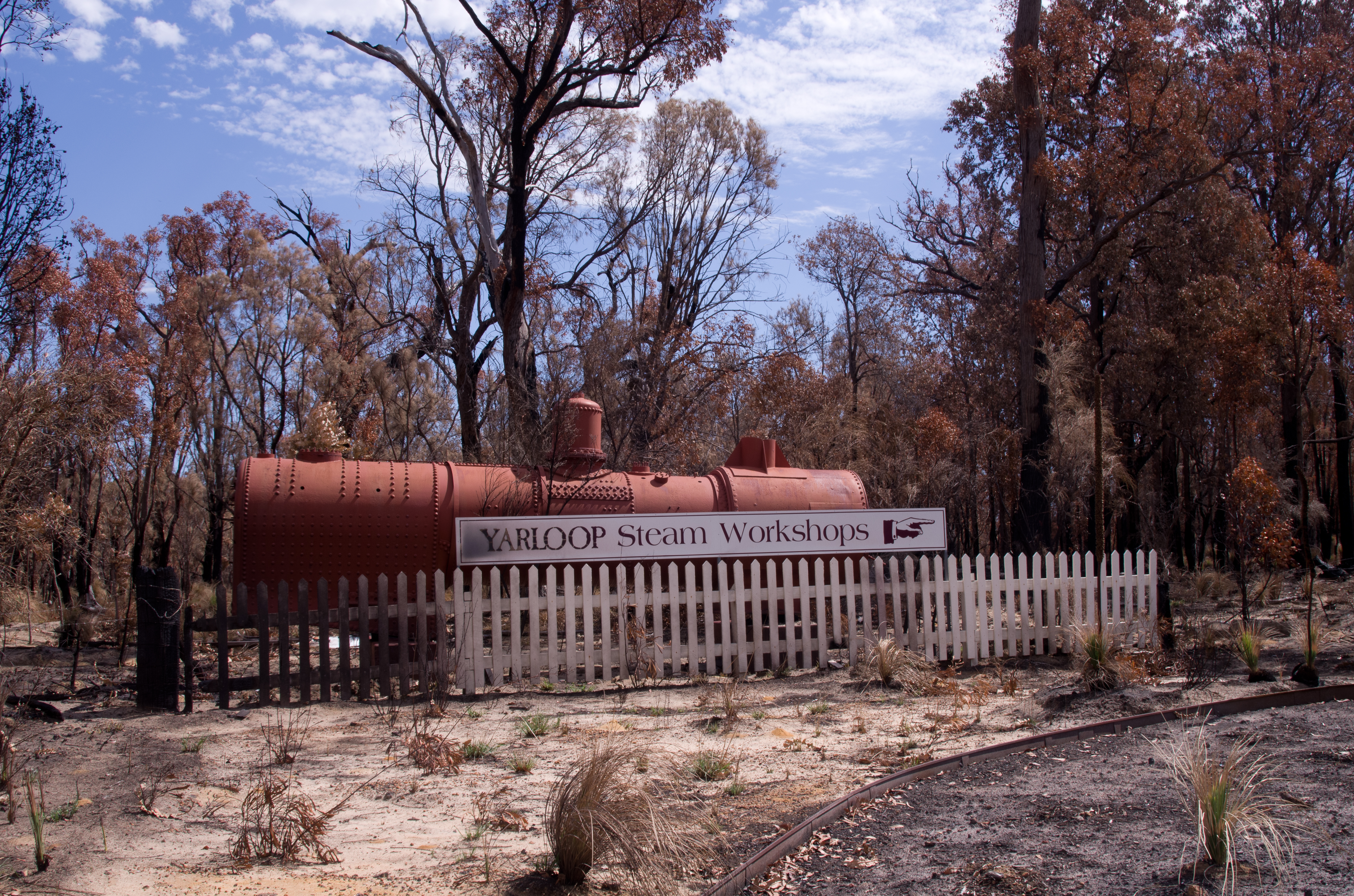 Damage from the Waroona Fire